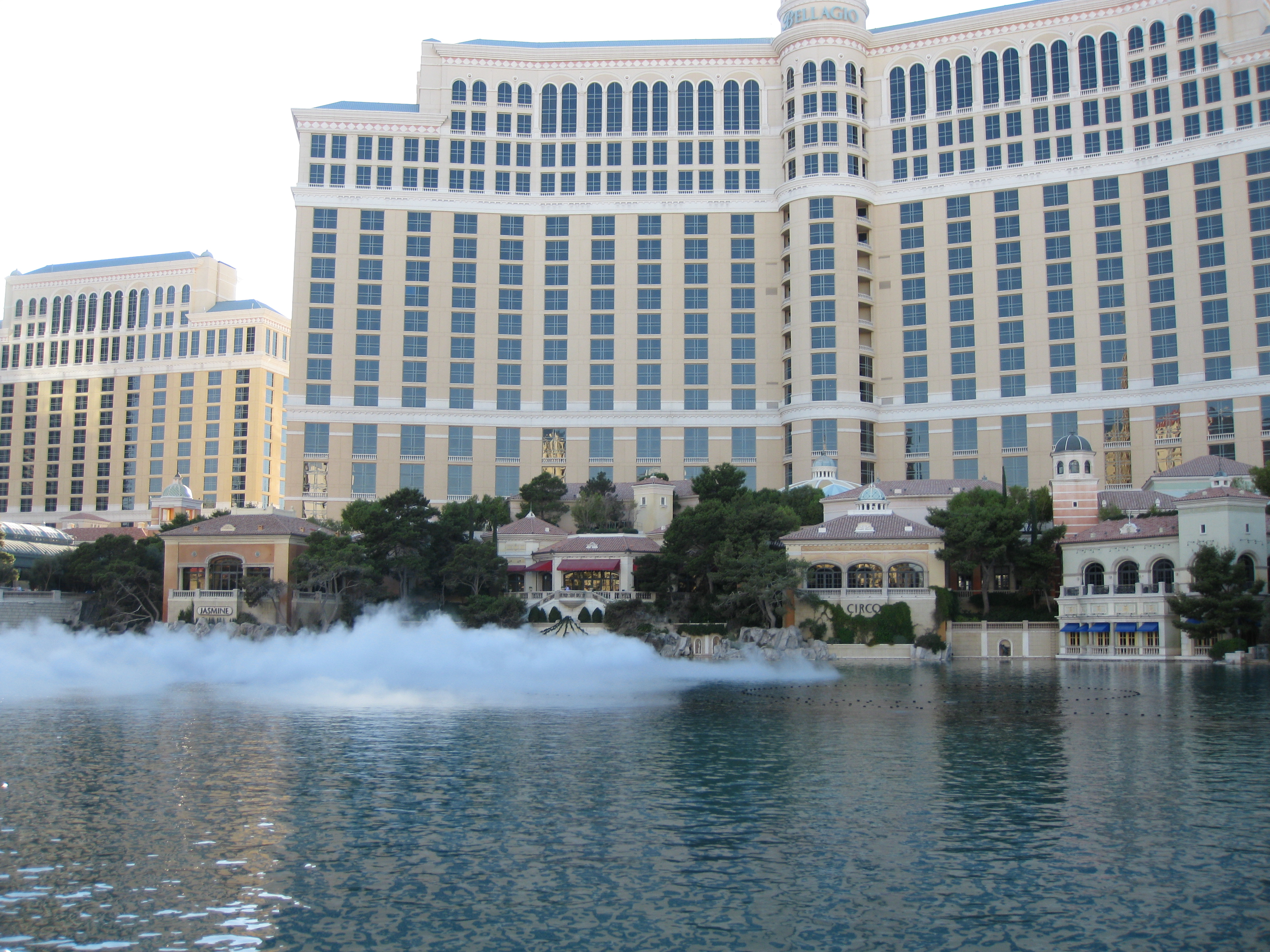 Bellagio